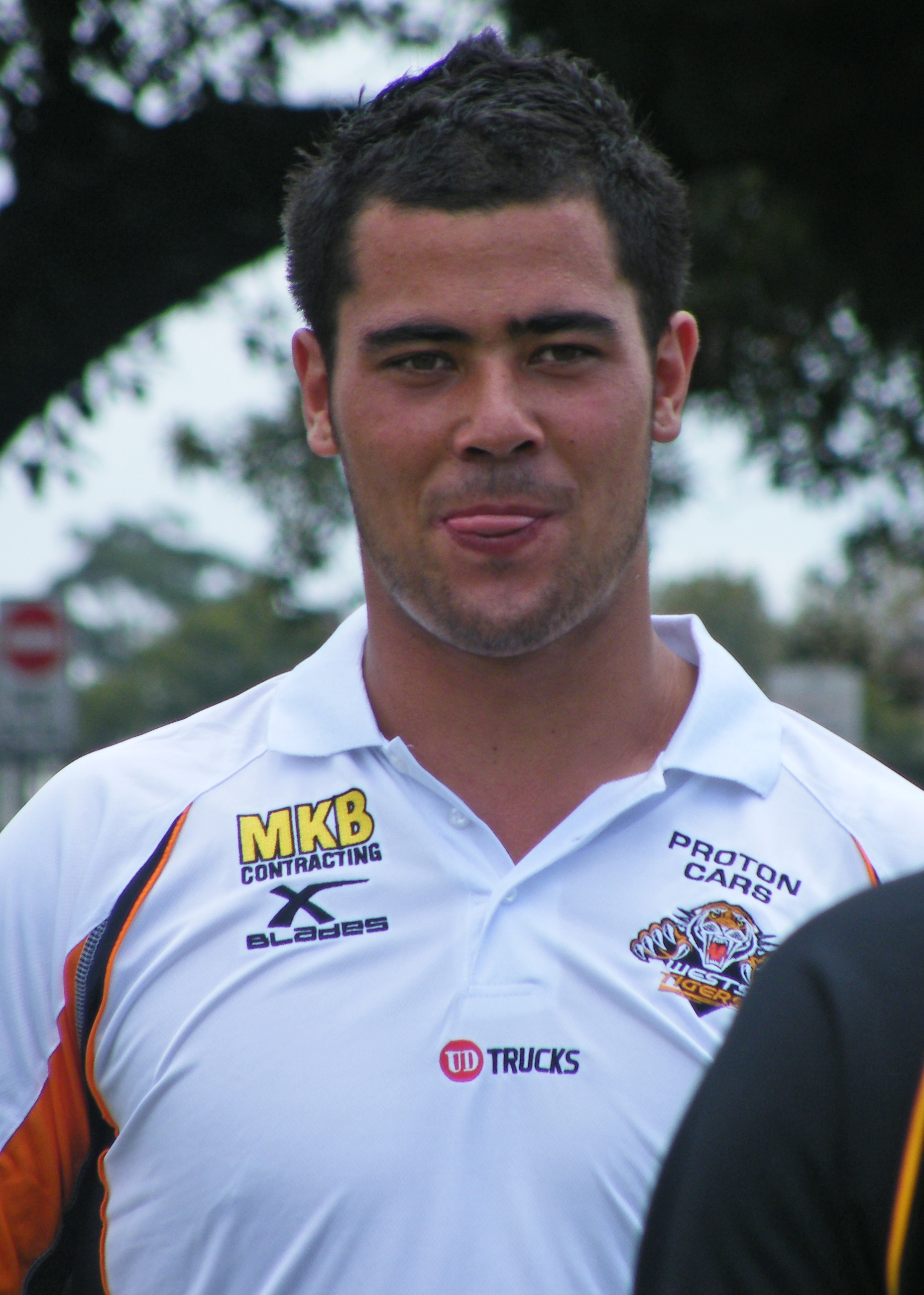 Andrew Fifita of the Wests Tigers at the Federation Cup Fan Day 2010.